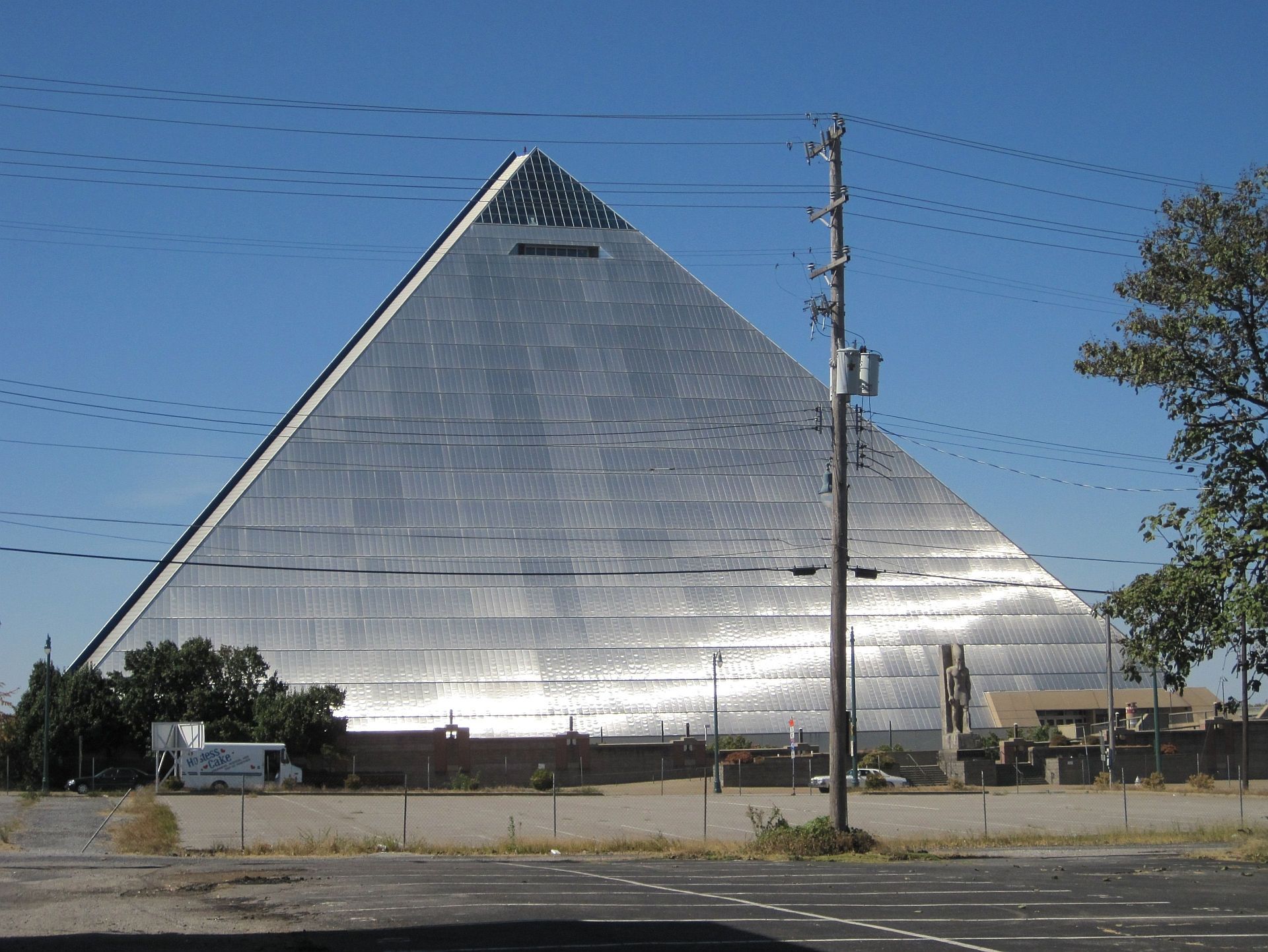 Downtown Memphis, Tennessee. Pyramid Arena from Main Street